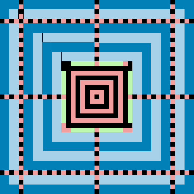 Aztec full code description fixed Black color = always black (alignment marks) Orange color = always white (alignment marks) Green color = mode message Blue color = data bits